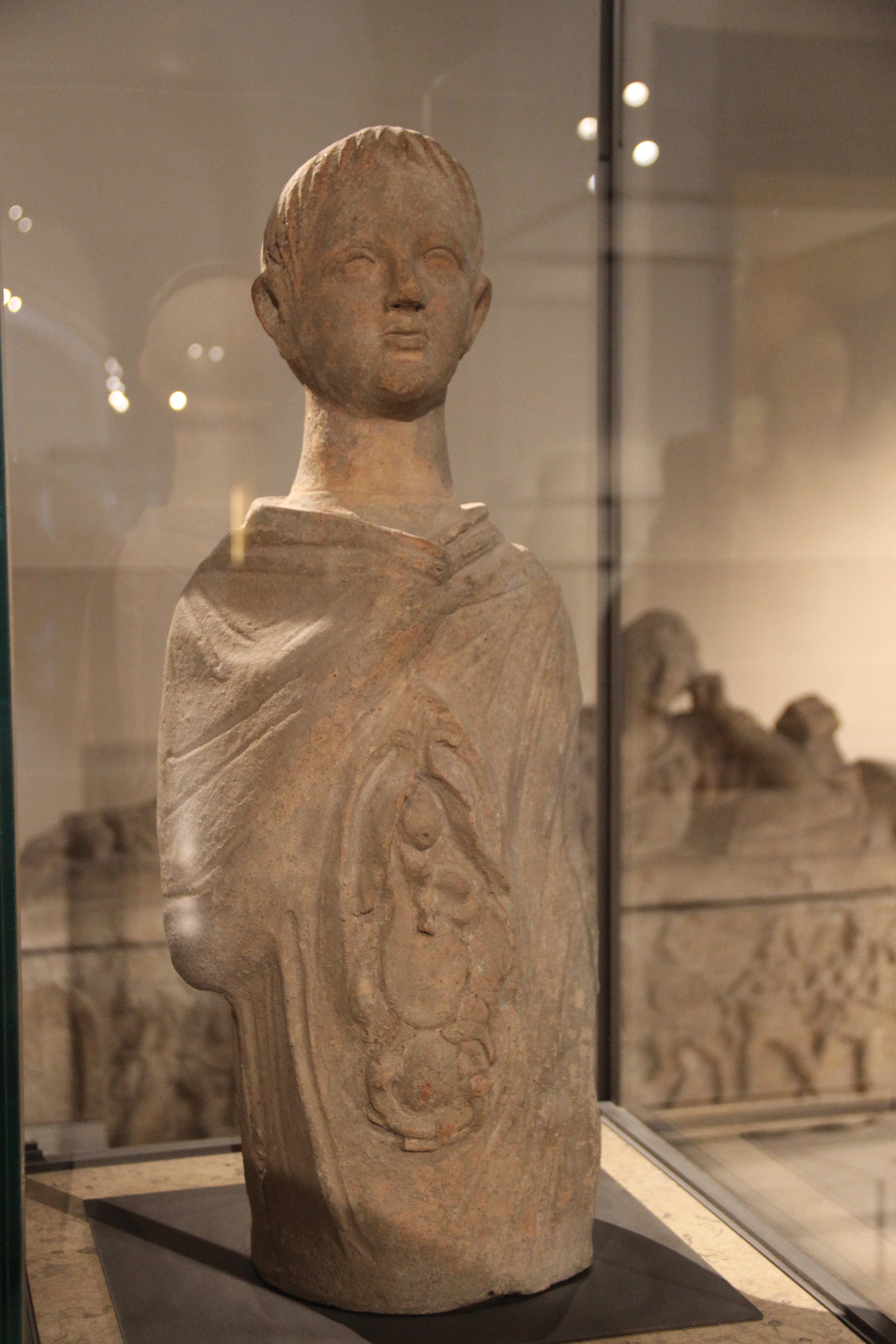 Etruscan Anatomical votive bust of a youth, Louvre Museum, Paris. Orange terracotta. Break to the neck. Etruscan Art, Latium, probably Canino, 3rd - 2nd century B.C. 26 3/4 in. high (68 cm).